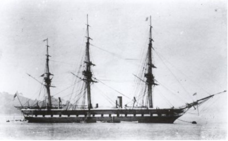 HMS Undaunted (1862)